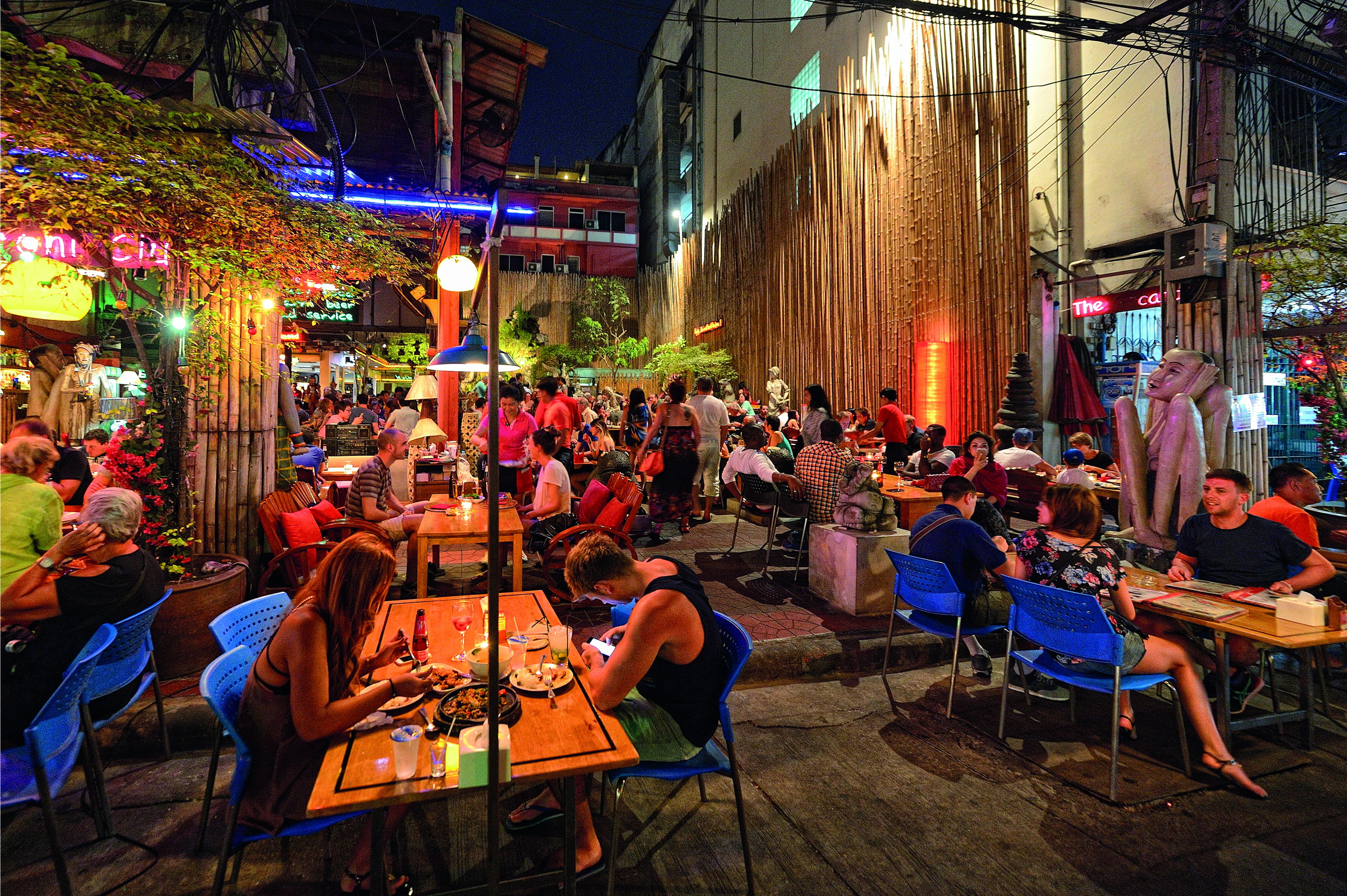 Across from Wat Chan Songkhram, Khao San Road, with 400 metres in length, is situated on a good location – Bang Lamphu, ThaPhraAtit, Rajadamnern road, and Sanam Luang field. This area was originally a canal which was once the largest hub of rice trade in the city, and later was filled for road construction in 1892 during the reign of King Rama V. This area was once a residential area of high-ranked officials, and some ‘Gingerbread’ style houses can still be seen. There was a major event “Bangkok Bicentennial Royal Ceremonies marking 200 years of the Rattanakosin Era”, in 1982, which drew a vast number of visitors to Bangkok. However, there were not enough hotels to serve these visitors, and many of them, backpackers in particular, sought to stay close to Sanam Luang. This, thus, was the introduction of the term “Guest House” in Thailand places where landlords offer a room to visitors to spend a night with much lower prices than those charged by hotels.One of those backpackers, of course, was “Joe Cummings” a writer for a world-class magazine “Lonely Planet”. His piece of writing about the vibrant setting and 24-hour activities on Khao San road made this area become known worldwide. Many film productions from Hollywood also took place here. Khao San road became a hub for tourists in many festivals, especially Songkran.